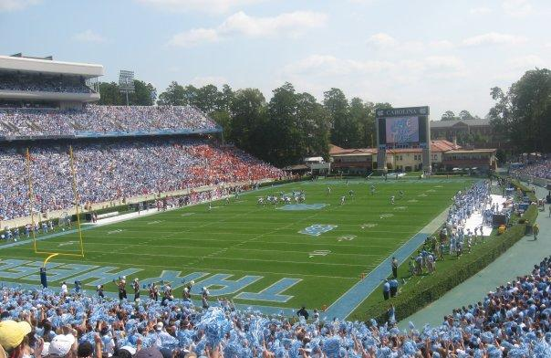 Football game at Kenan Memorial Stadium, Chapel Hill, North Carolina